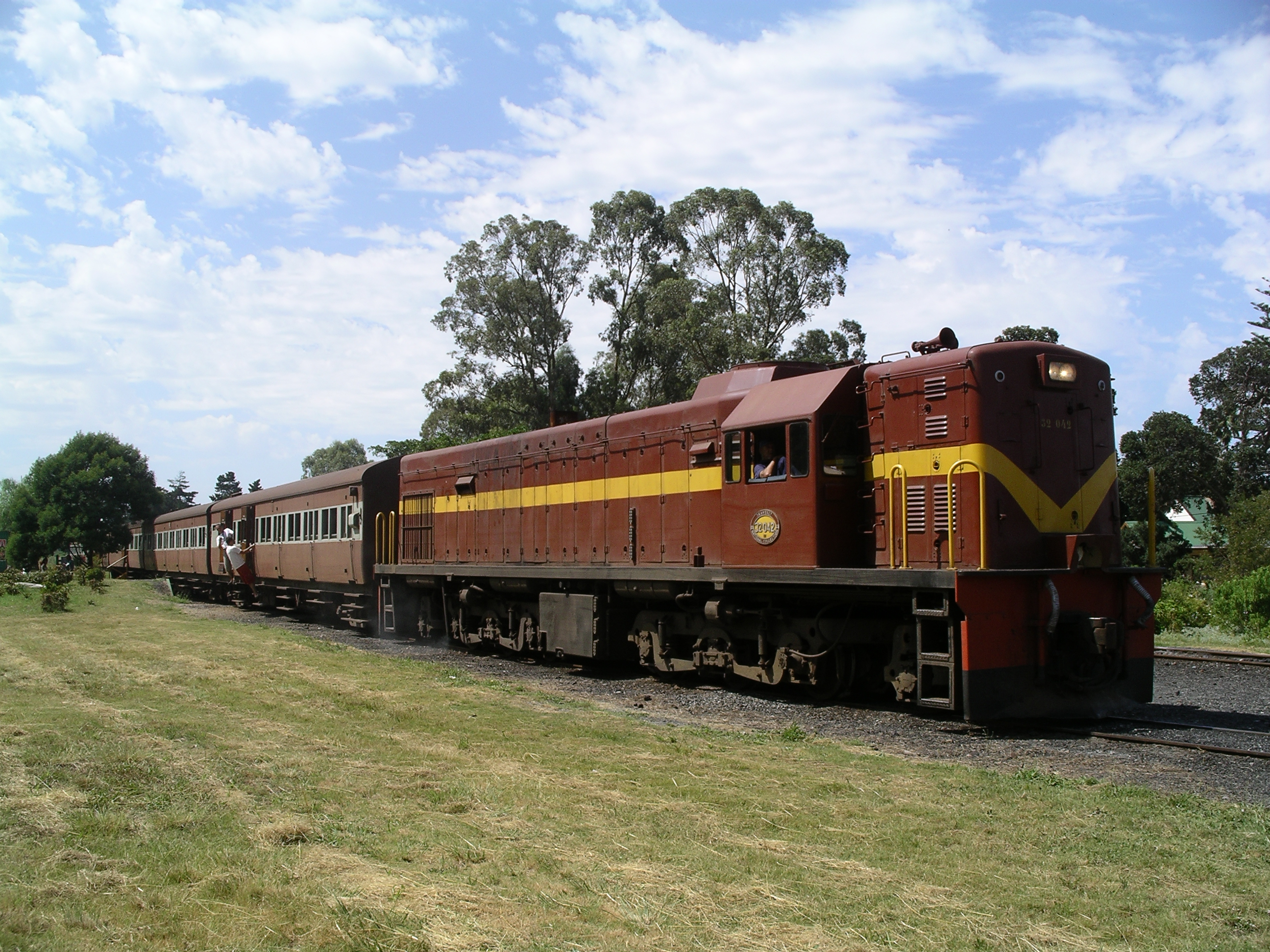 Outeniqua Choo Tjoe Railway train, with Diesel engine Transnet No 3, between George and Knysna, South Africa. The railway start at Outeniqua Transport Museum in George.